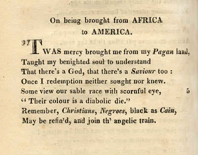 Reprinted in "The Interesting Narrative of the Life of Olaudah Equiano or Gustavus Vassa, the African"